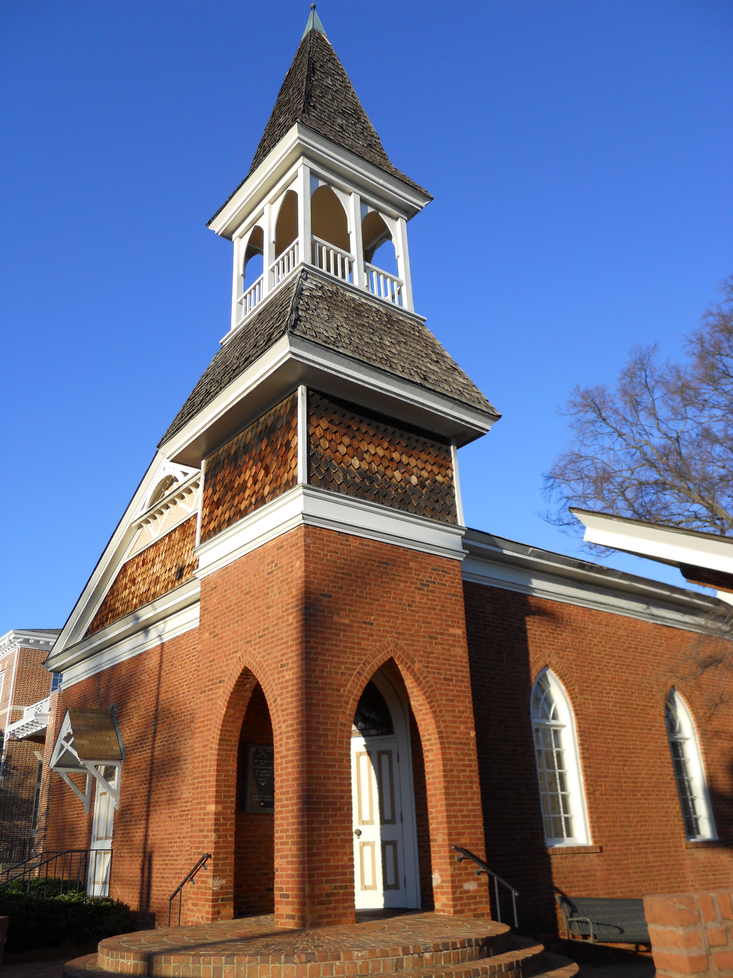 This is a photograph of the Auburn University Chapel. The building was added to the National Register of Historic Places on May 22, 1973